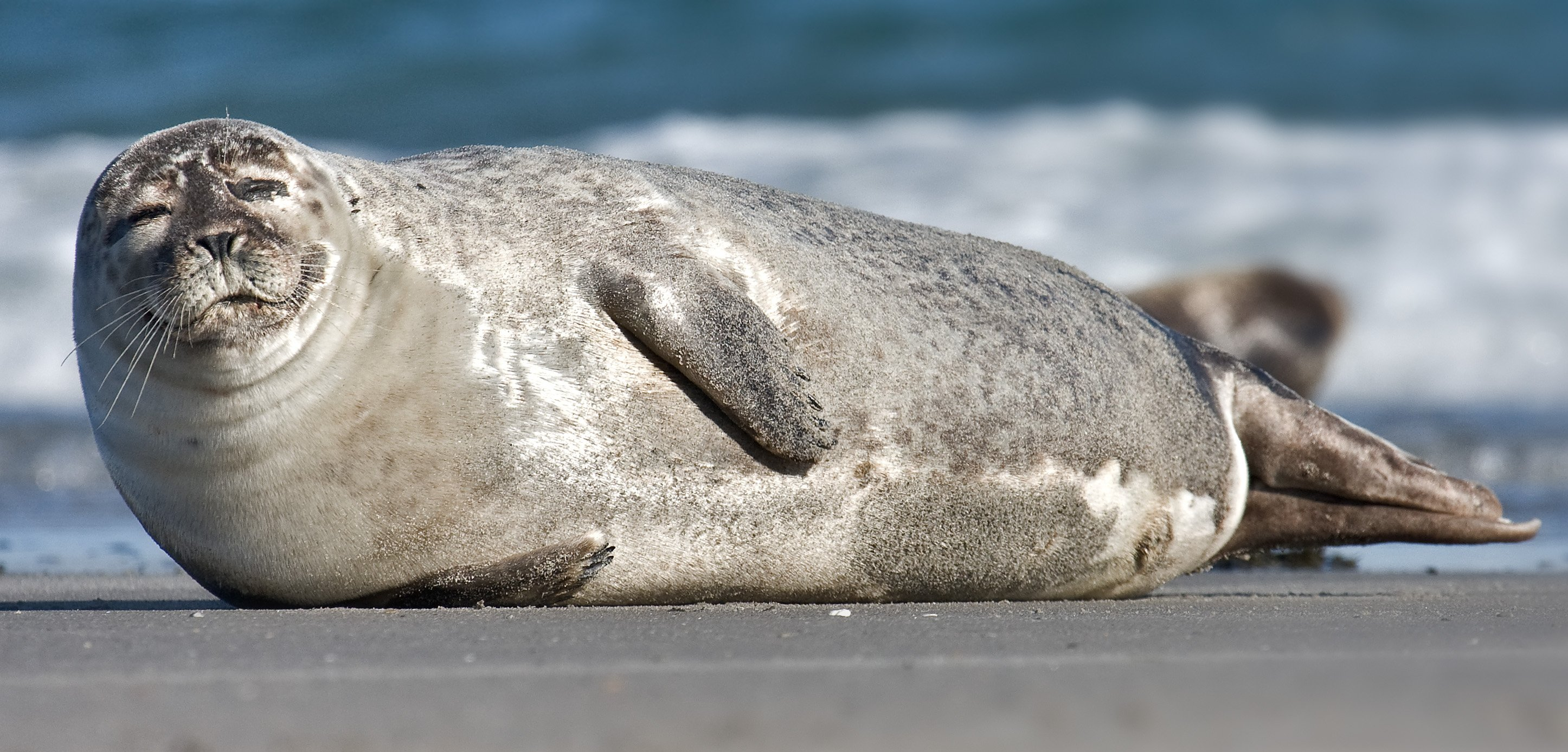 Crop of file in filename